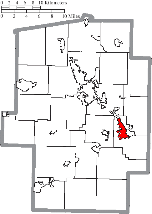 Map of the municipal and township boundaries of Tuscarawas County, Ohio, United States, as of the 2000 census, with the location of the city of Uhrichsville highlighted. Township borders are shown only in unincorporated areas in order to differentiate incorporated and unincorporated areas more clearly.